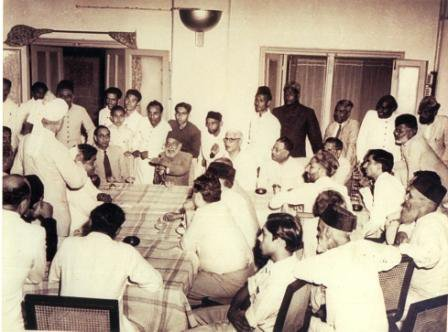 this mushaira was held in the honor of Maulana Hasrat Muhani. Asad sb reciting his poem in the standing position